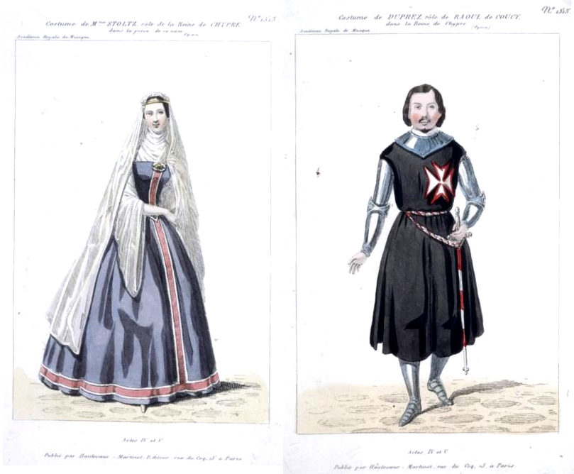 Costume designs for Rosine Stoltz in the title role and Gilbert Duprez as Gérard de Coucy in Acts 4 & 5 of the original production of Halévy's 1841 grand opera La reine de Chypre.